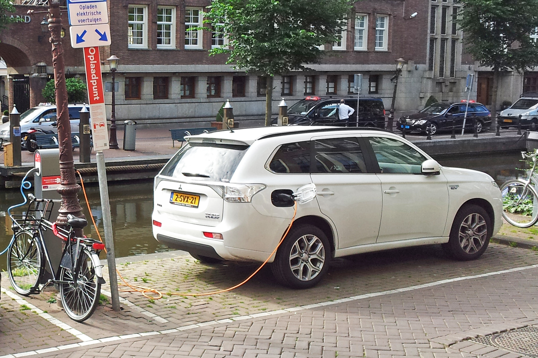 Mitsubishi Outlander P-HEV charging at a public charging station in Amsterdam, Oudezijds Voorburgwal.